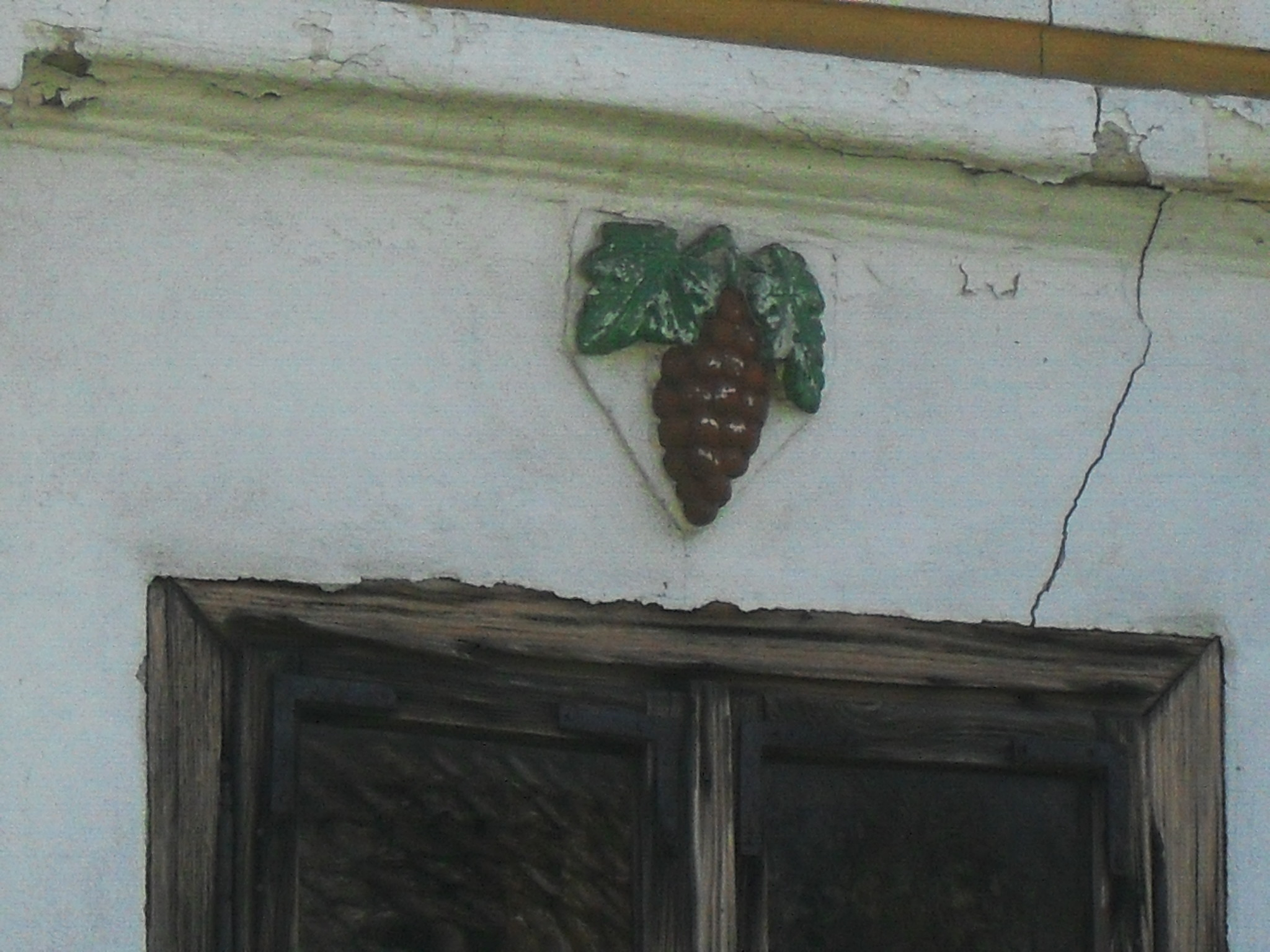 Traditional rustic charm in a old Kajkavian house in Donji Vidovec (1) (Međimurje, Croatia). Vine (kajkavian grozdije)